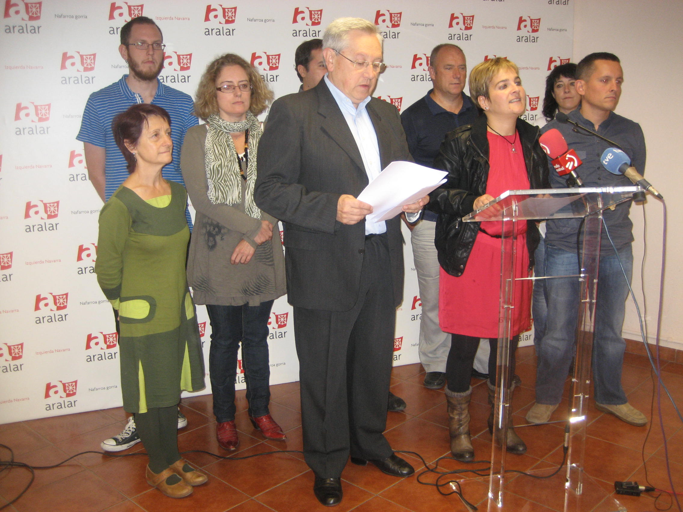 Aralar party declaration after the International Conference to Promote the resolution of the conflict in the Basque Country